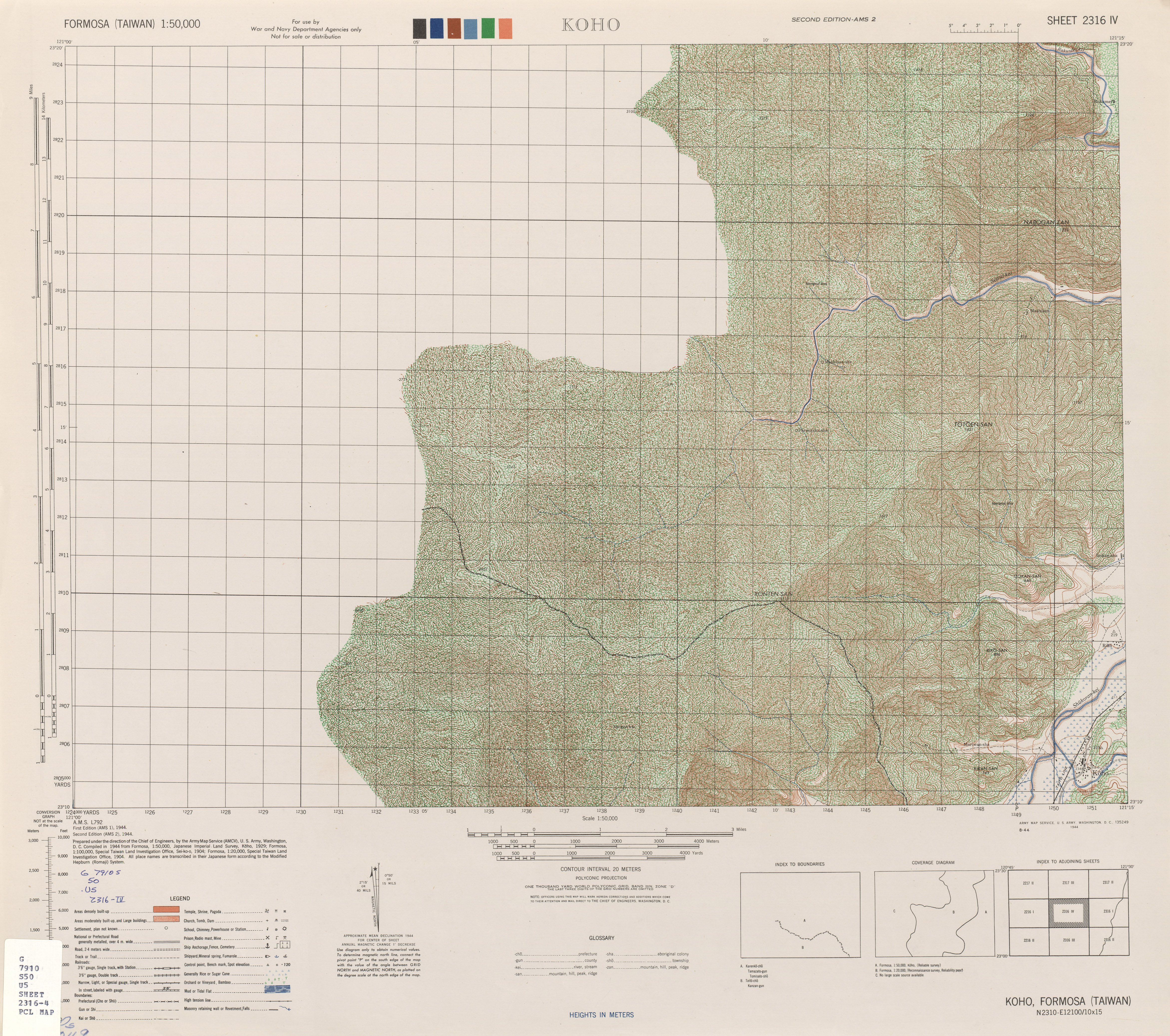 Map from Formosa (Taiwan) 1:50,000 AMS Series L792